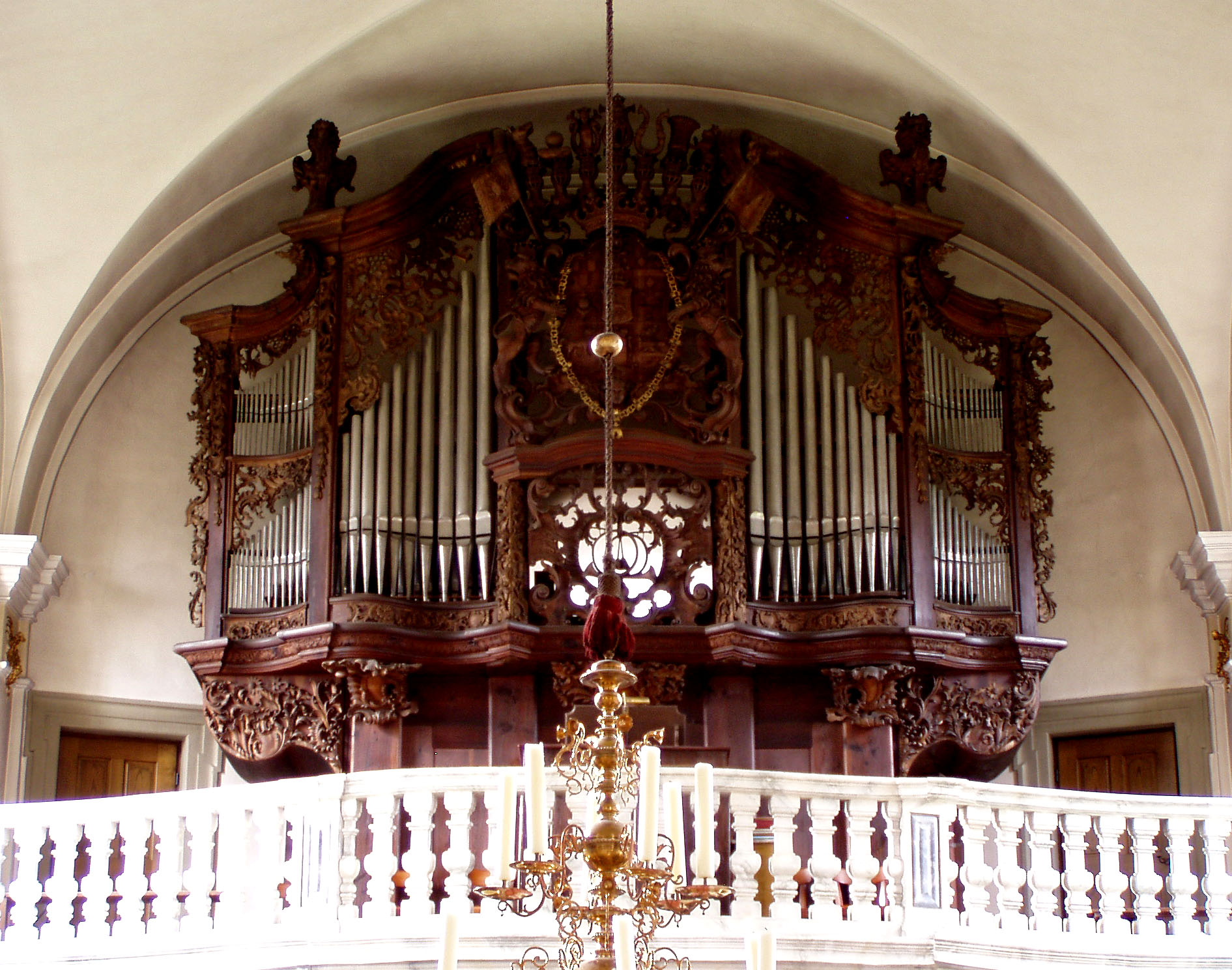 The famous Seuffert-Organ in Gaibach